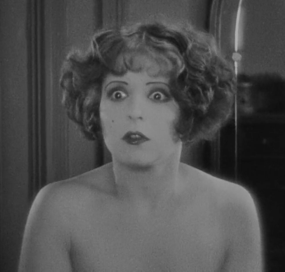 Cropped screenshot of Clara Bow from the film Wings.